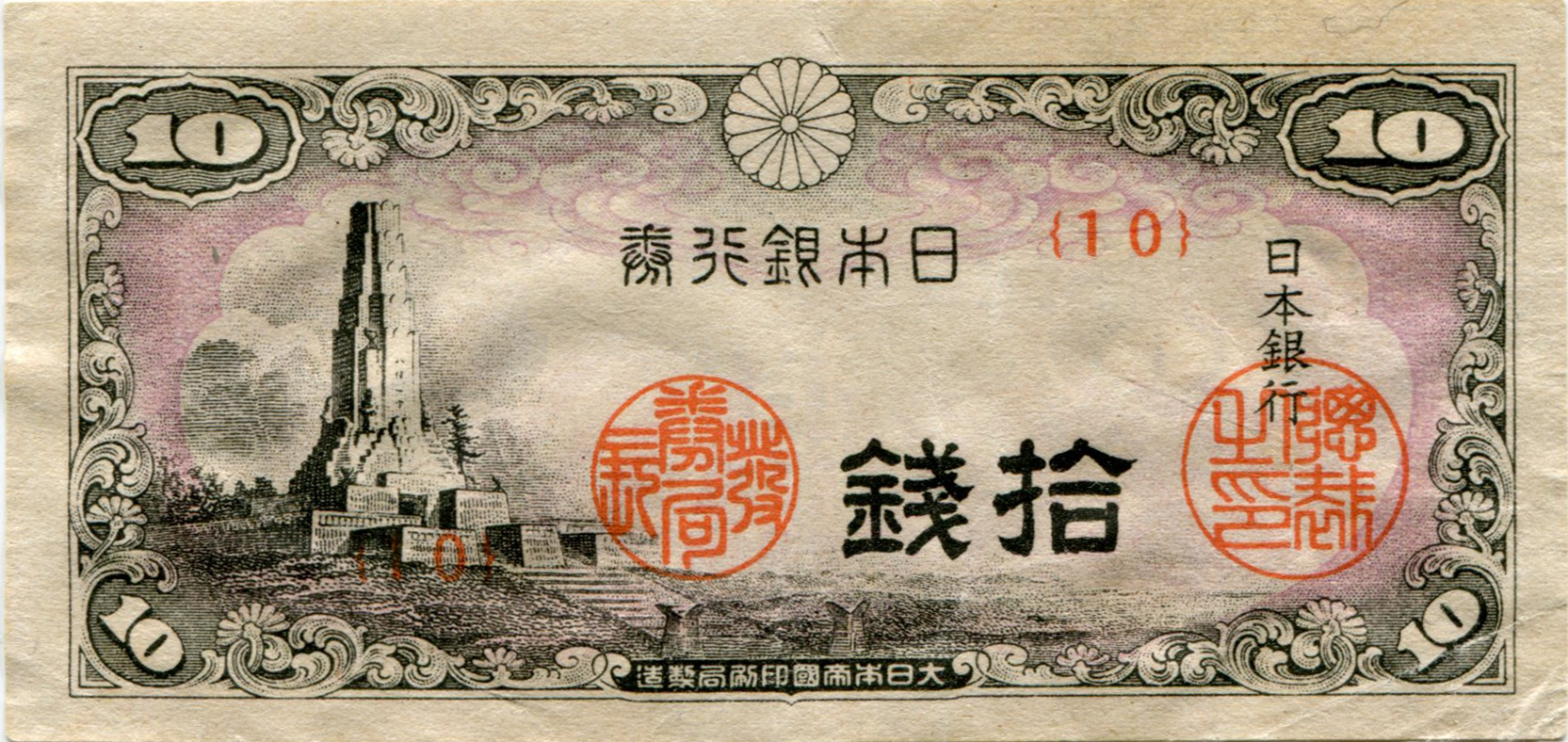 Series Yi 10 Sen Bank of Japan note. First issued in 1944. Demonetized in 1958. Hakkō ichiu monument in Miyazaki prefecture. 106mm x 51mm.